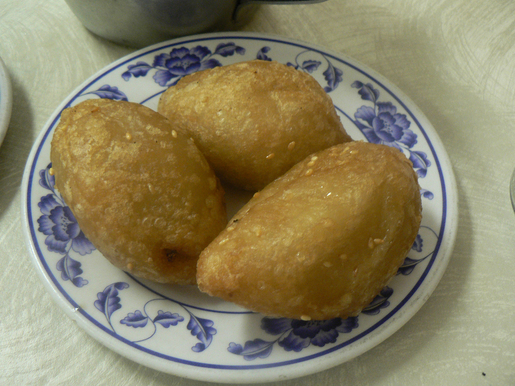 咸水角, a kind of deep fried dim sum.